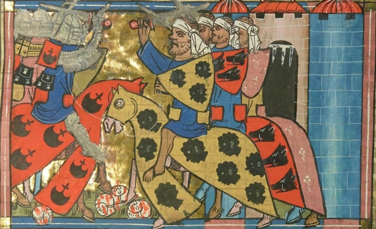 Siege of Antioch